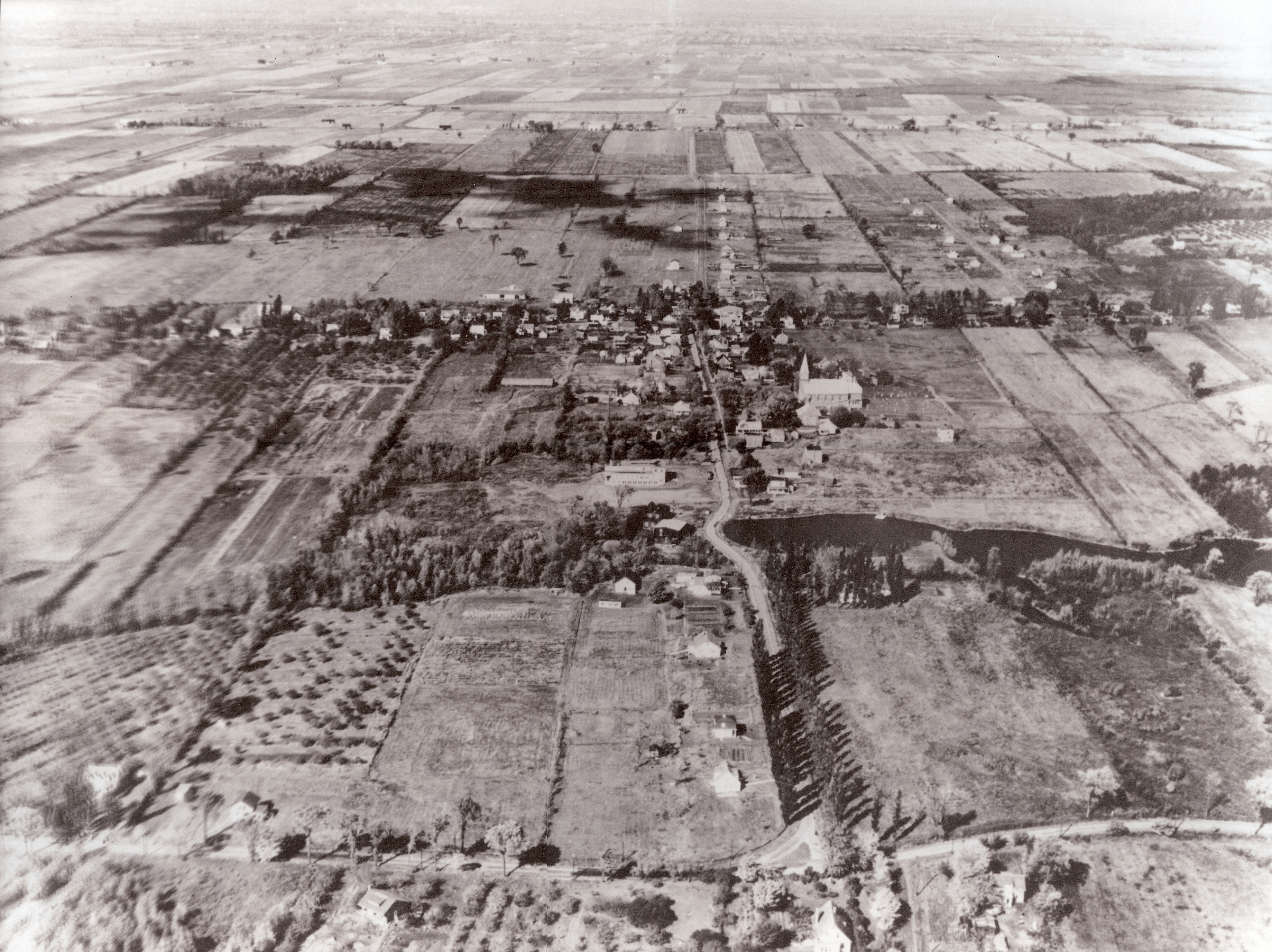 Aerial view of Saint-Bruno-De-Montarville taken in 1952 by the Canadian Air Force. The camera is looking down rue Montarville with rue Beaumont parallel in the foreground towards what is now down town Saint-Bruno. Of the structures and landmarks still standing today, the city's catholic church and the village lake are the most obvious.